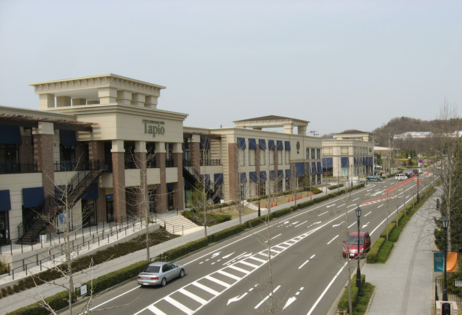 Izumi Park Town Tapio